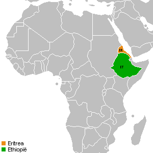 Locatormap for Ethiopia and Eritrea.